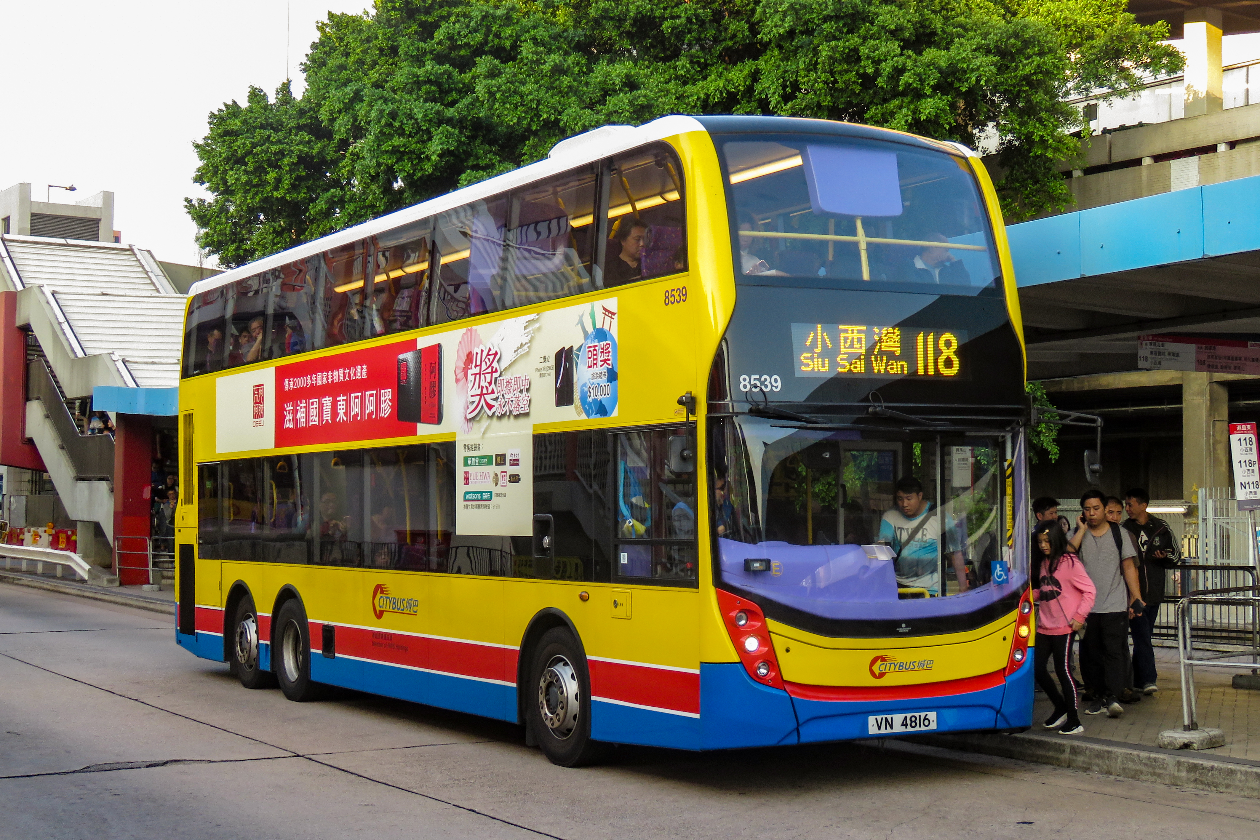 With DEEJ banners. It is extremely rare for 12.8m MMC to run 118, and I haven't seen that scene...